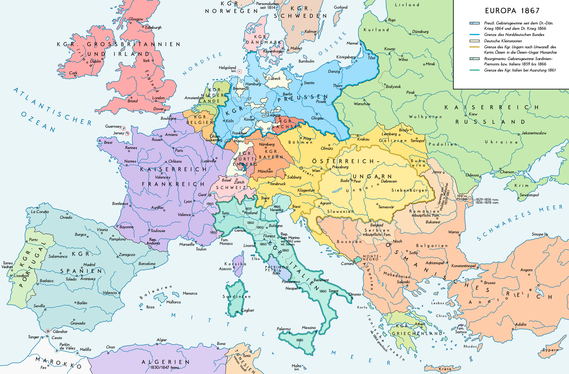 Europe 1867. Historical map of the political situation after the forming of the North German Confederation, the Italian Risorgimento (with the exception of the Roman part of the Papal States) and the Austro-Hungarian Compromise of 1867. Please don't alter the map, when you think there something not written or depicted correctly. Leave a message at the talk page of the file. After a verificiation and a possible discussion, i will upload a new map version with all new changes. This prevents an unnecessary waste of disc space and ensures a good result, aesthetically and contentwise. - The author.